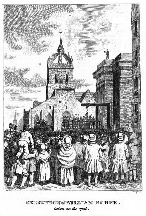 "Execution of William Burke. Taken on the spot"